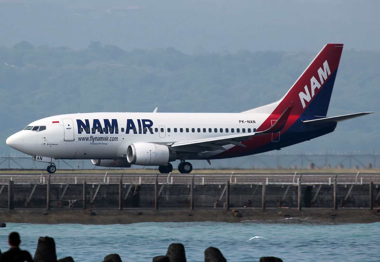 Nam Air Boeing 737-500 at Bali Airport